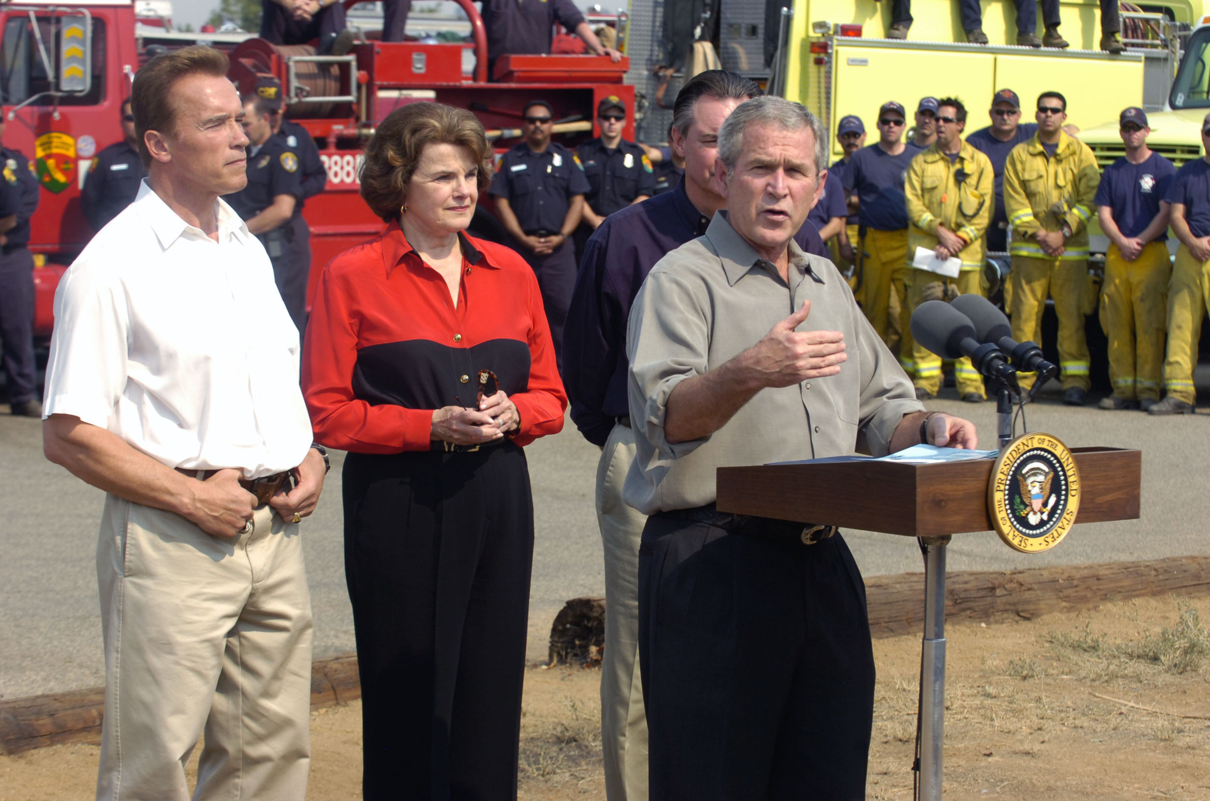 "Our National Guard personnel have provided very important assistance," President George W. Bush said at Kit Carson Park in Escondido, Calif., during a visit to wildfires on Oct. 25, 2007. "I am proud to be here with (LTG H Steven Blum), who runs the entire National Guard Bureau," the president said as California Gov. Arnold Schwarzenegger, U.S. Sen. Dianne Feinstein (D.-Calif.) and firefighters listened. More than 1,500 National Guard Citizen-Soldiers and -Airmen are assisting firefighting efforts. (U.S. Army photo by Staff Sgt. Jim Greenhill) (Released)